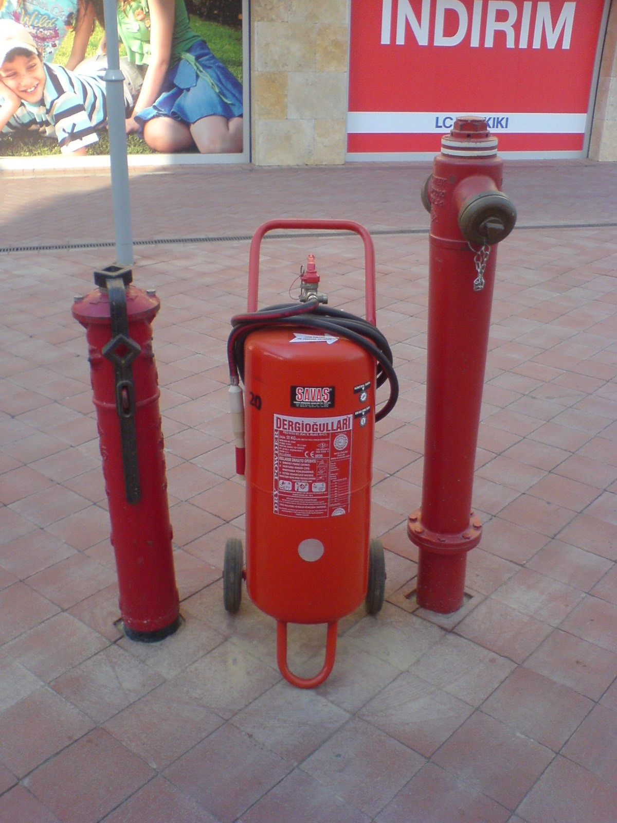 A Fire hydrant and fire extinguisher in İzmir Turkey